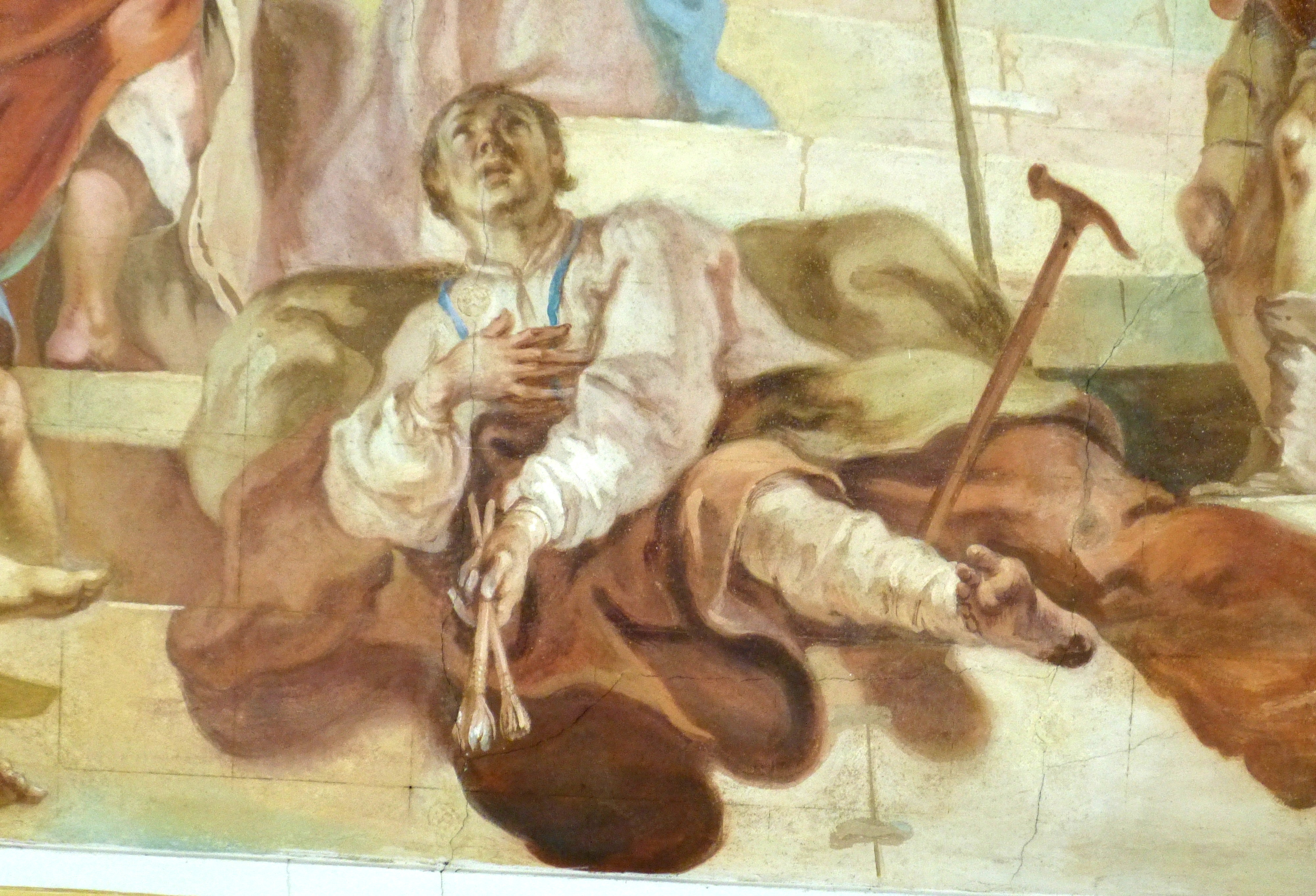 Birnau ( Baden-Württemberg ). Basilica of the Assumption of Mary ( 1750 ) - Fresco of Virgin Mary by Gottfried Bernhard Göz - detail: Self-portrait of the painter with broken leg.